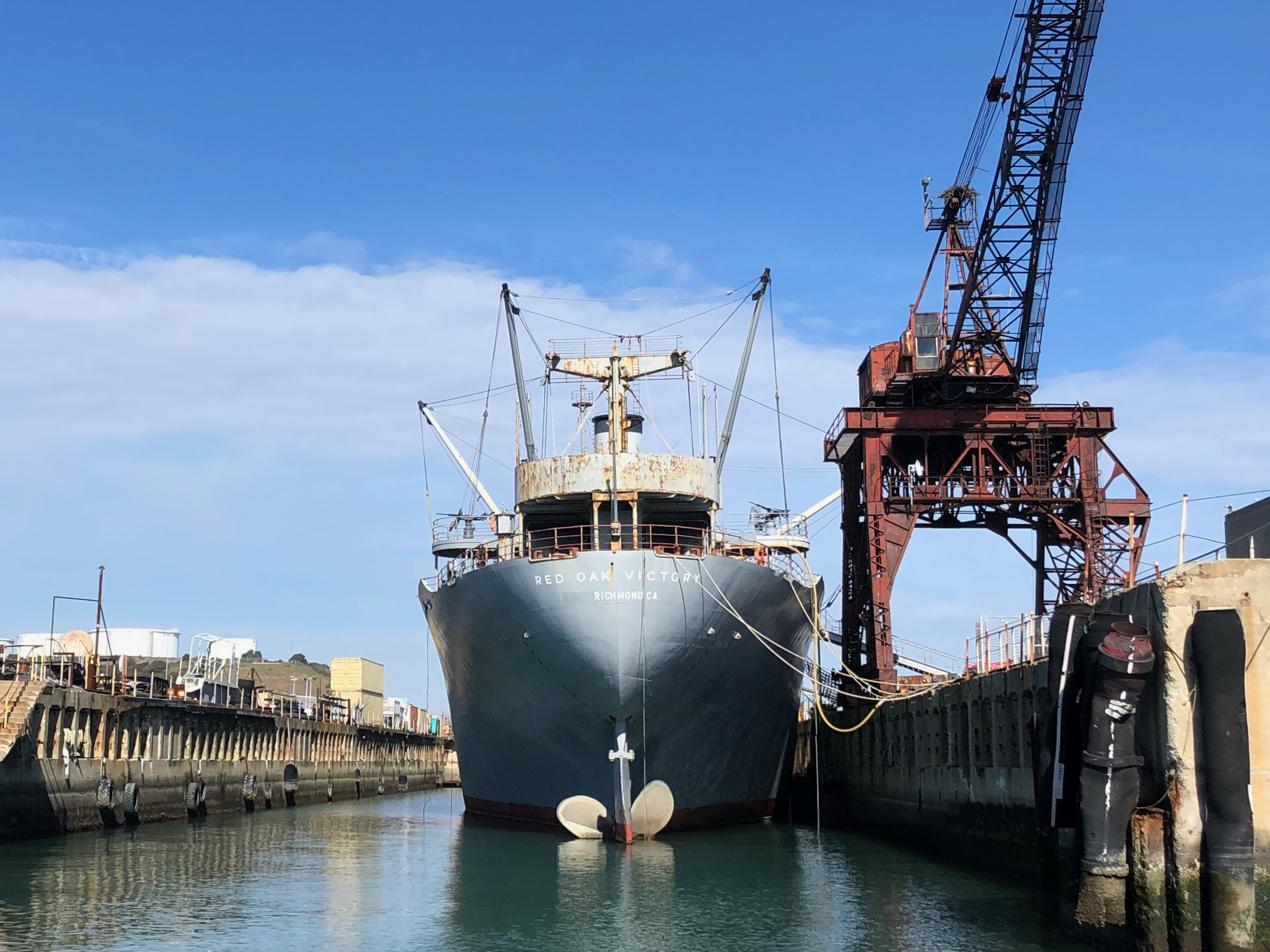 A U.S. military Victory ship, currently a museum ship in Richmond, California